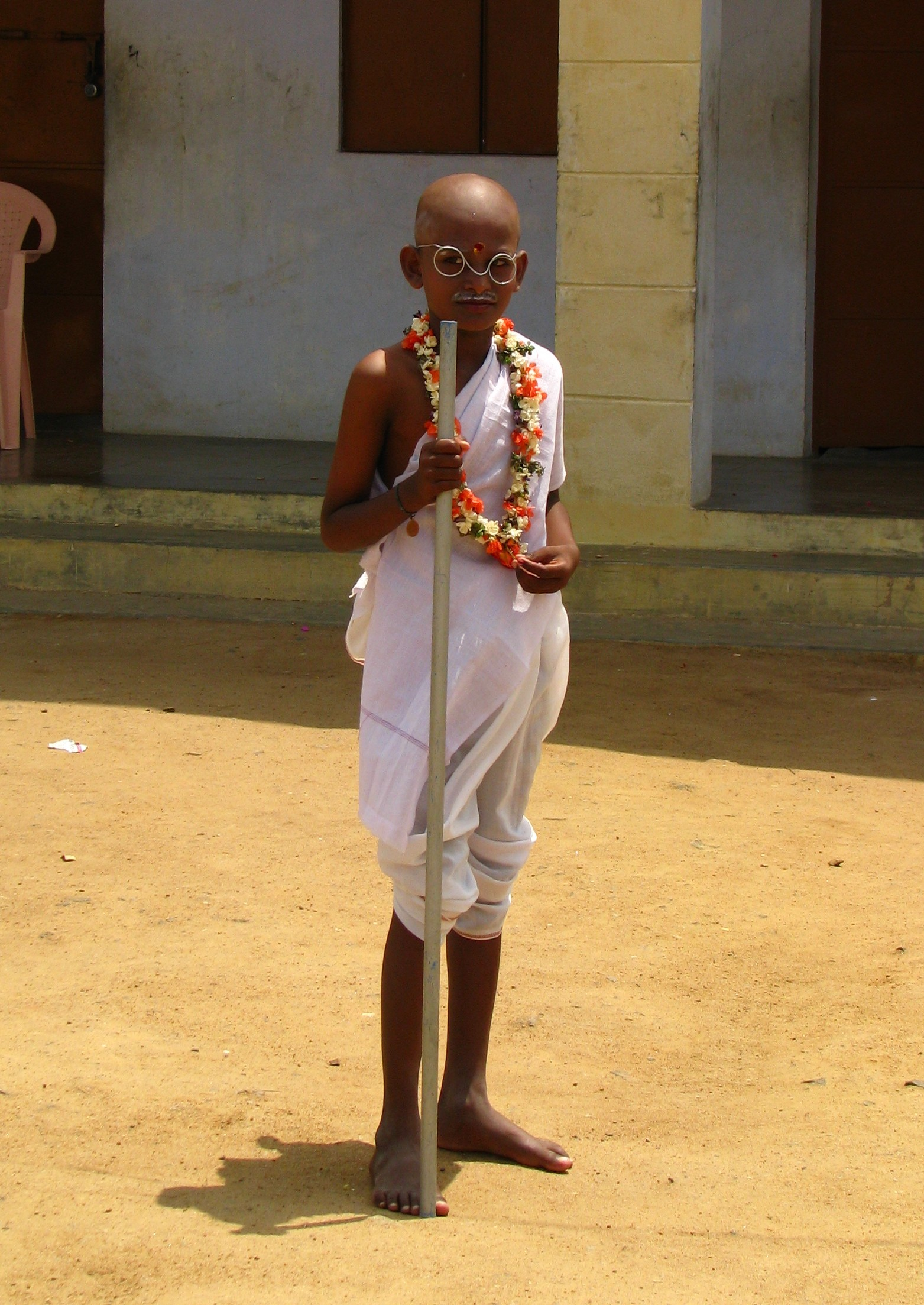 HiH - Events - World Child's Prize Vote- 08-03-18 - 57